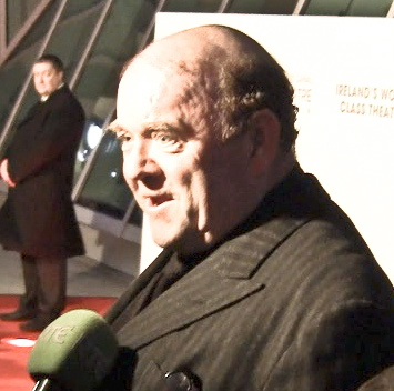 Paul McGuinness at the opening of the Grand Canal Theatre in March 2010.